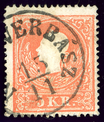 Austrian KK 5 kreuzer issue 1859, cancelled NEU-VERBASZ, Banat, Serbia.